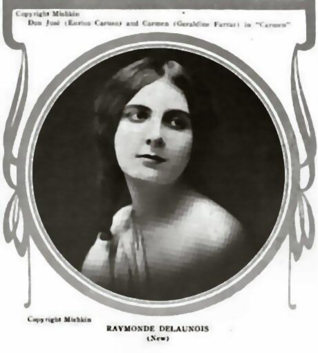 Raymonde Delaunois ca. 1915